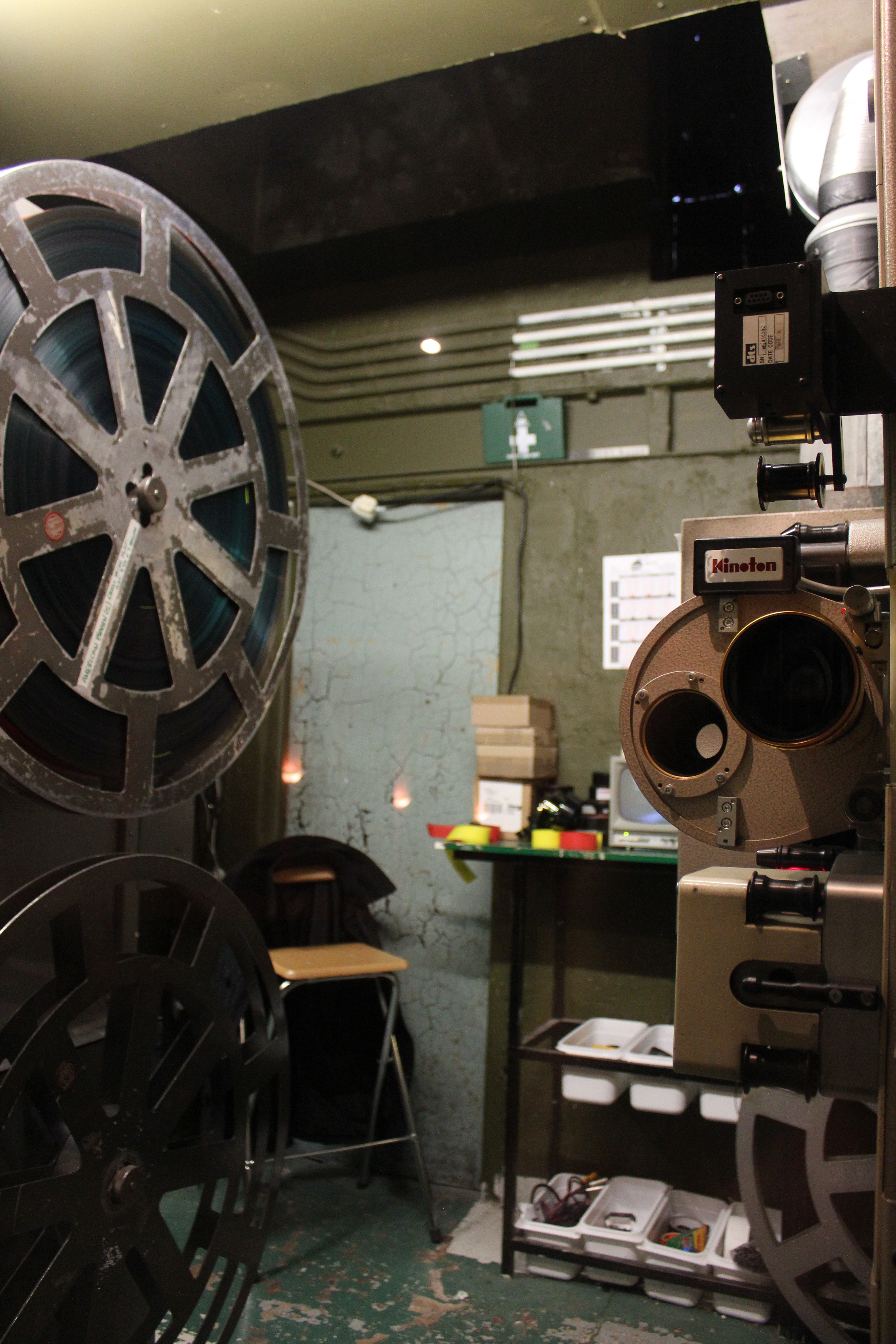 Savoy Theatre, Monmouth, view of the projection room